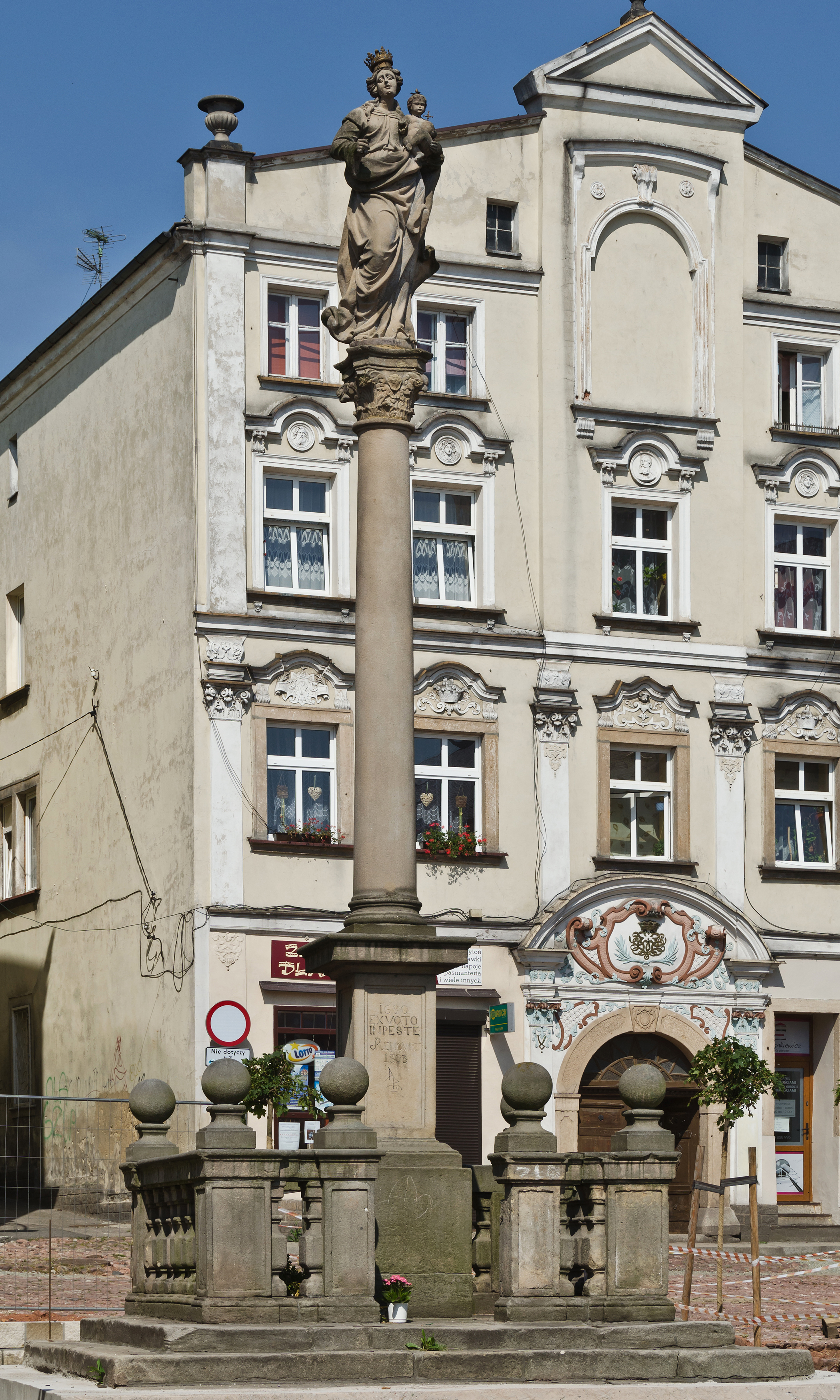 Marian column in Radków